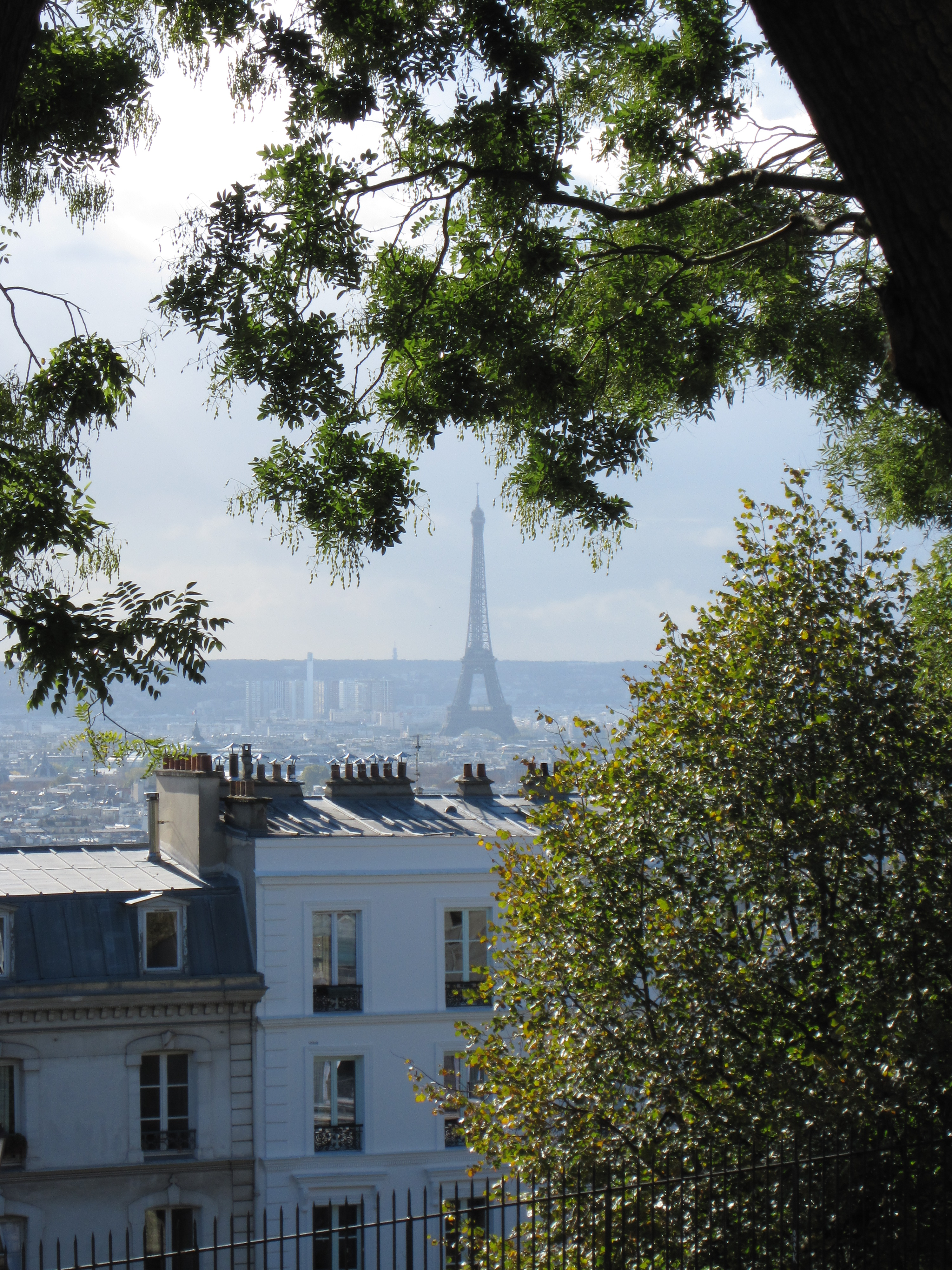 The Eiffel form the Sacré-Cœur October 2010.